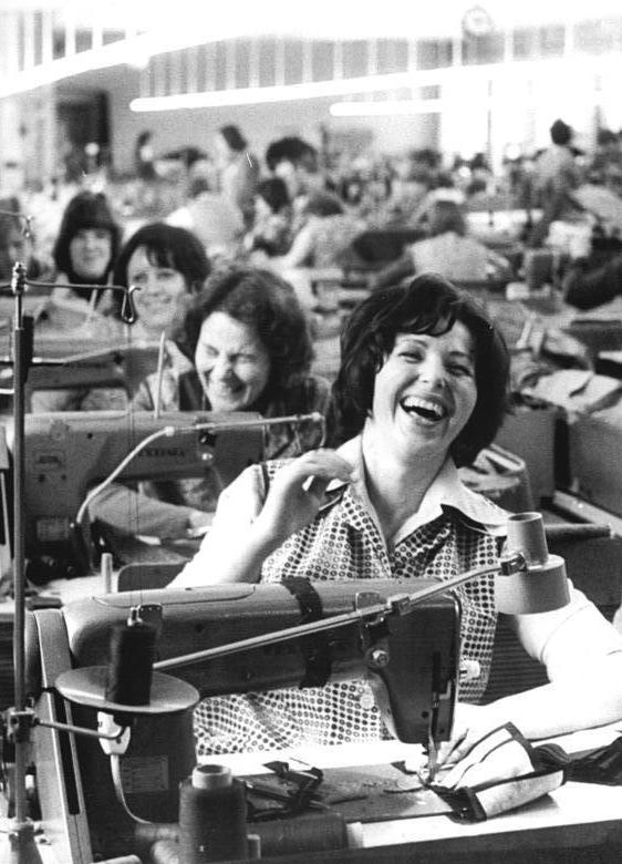 ADN-ZB-Sindermann-25.4.1978-la-Bez. Rostock: Wettbewerb-So gut wie die Qualitätserzeugnisse aus dem VEB "Diamant" Grevesmühlen ist auch die Stimmung bei den fleißigen Frauen an den Bändern. Über 50 Prozent der hier gefertigten Herrenoberbekleidungserzeugnisse tragen das Gütezeichen "Q". So können die 850 Werktätigen - 95 Prozent von ihnen sind Frauen - auch den 1. Mai mit guter Bilanz begehen. Über 133.000 modische Anzüge werden hier pro Jahr produziert. Täglich verlassen rund 740 Sakkos und 840 Hosen, u.a. im begehrten Jeans- und Safari-Stil die Bänder. Translation: At the People Owned Company "Diamond" facility in Grevesmühlen, district of Rostock, the quality of products here is as good as the mood of the hard-working women on the assembly lines. Over 50 percent of the men's wear products manufactured here bear the “Q” quality mark. And every last one of the 850 workers — 95 percent women — can look back on a successful year as May Day approaches. Over 133,000 fashionable outfits are produced here every year. Around 740 sport coats and 840 pants, some of them in desirable denim and safari-style, come off the lines every day.